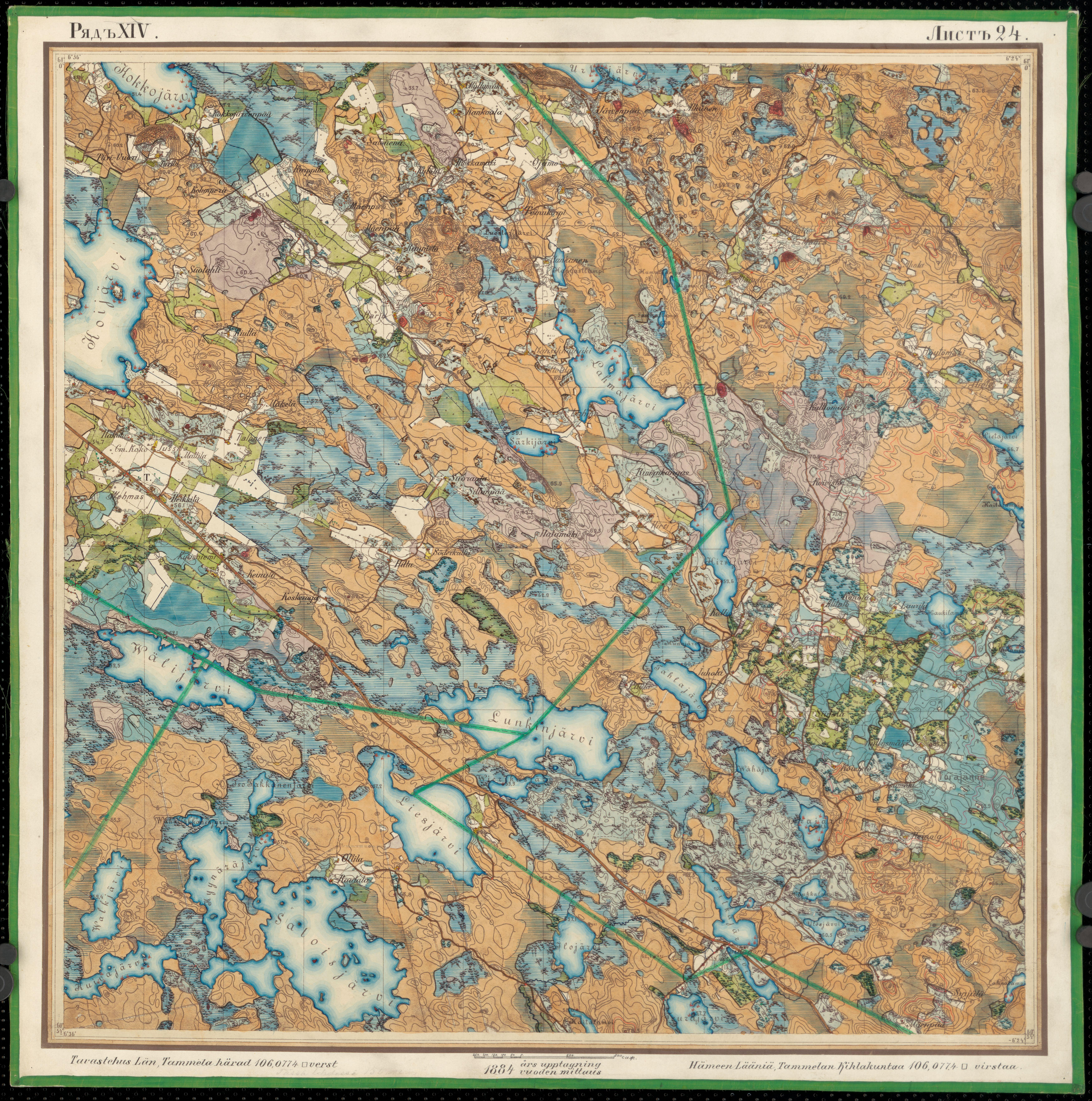 The Senate Atlas is a series of maps of Southern Finland drawn by the Russian Army topographic troops in the end of the 19th and the beginning of the 20th centuries in scale 1:21 000. The Senate Atlas consists of 2 individual series with different colouring traditions, the Russian and the Finnish.